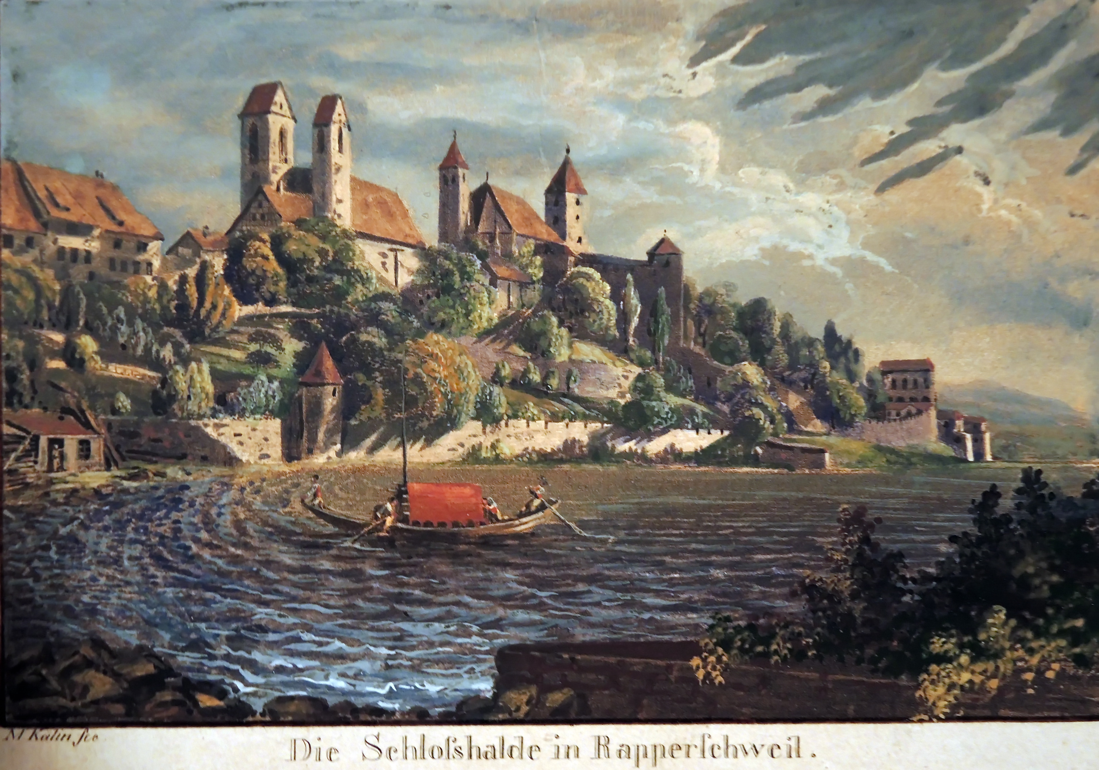 Collection of the Stadtmuseum in Rapperswil (Switzerland)